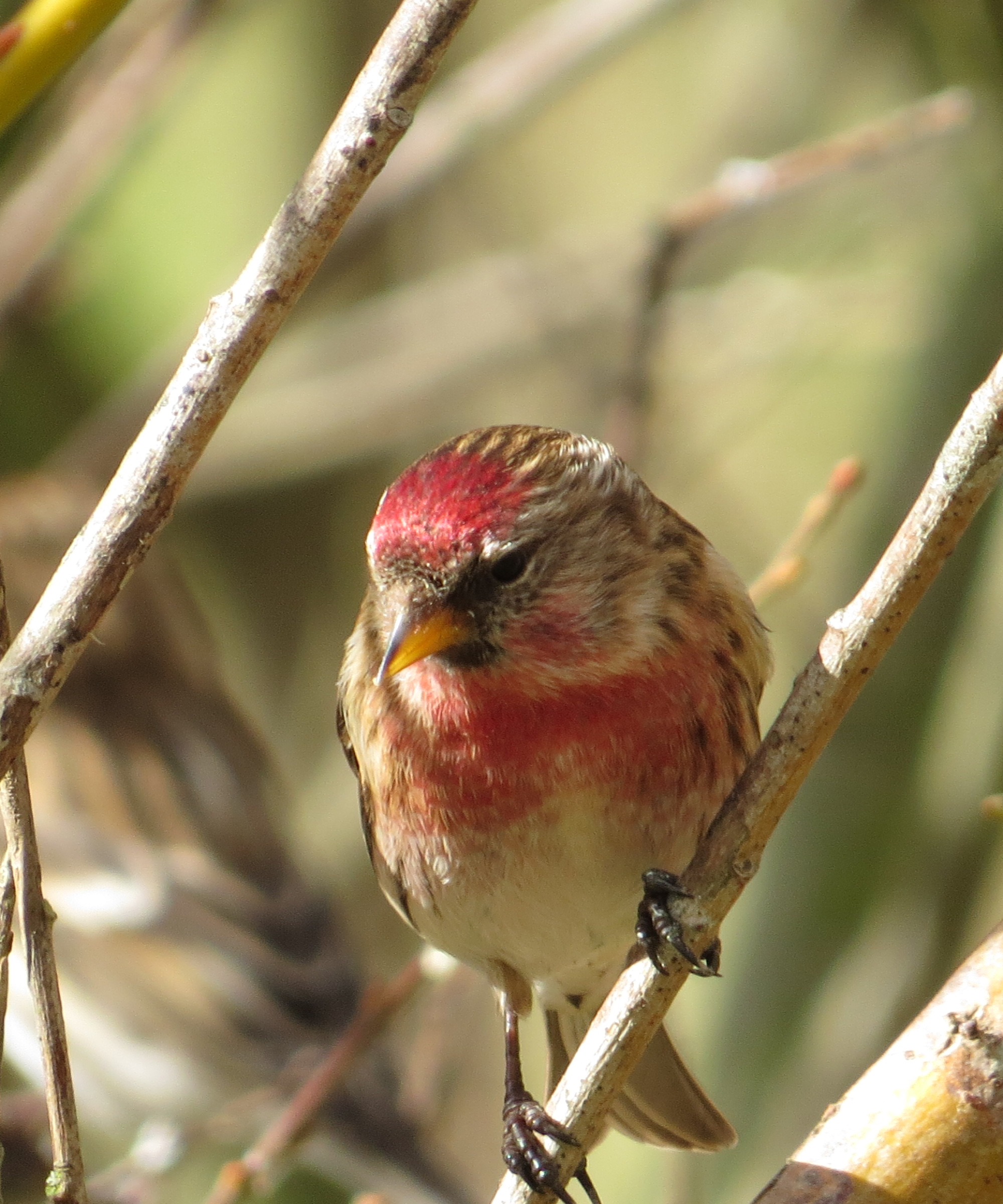 Lesser Redpoll Acanthis cabaret, male, East Chevington, Northumberland, UK